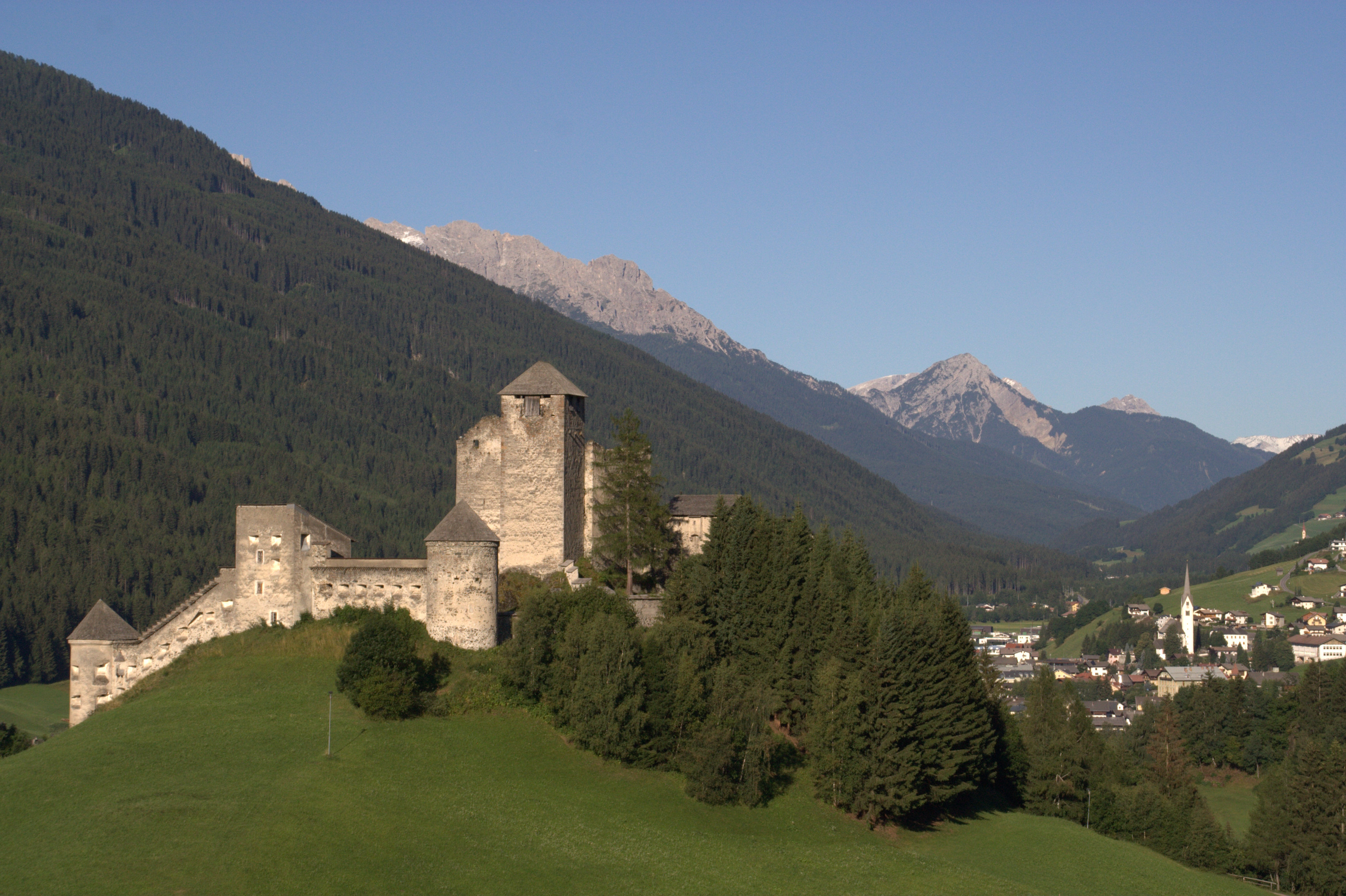 Heinfels Castle